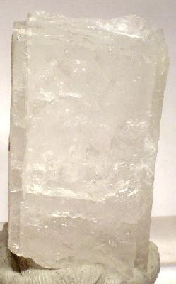 Chiolite Locality: Ivigtut Cryolite deposit, Ivittuut (Ivigtut), Arsuk Firth, Arsuk, Kitaa (West Greenland) Province, Greenland (Locality at ) An EXCELLENT, lustrous, translucent and blocky specimen of the VERY RARE mineral chiolite from Greenland. Chiolite is related to cryolite, but is much rarer and only occurs as massive material. This is a valuable piece of gem rough weighing 28 grams. 3.6 x 2.1 x 1.7 cm